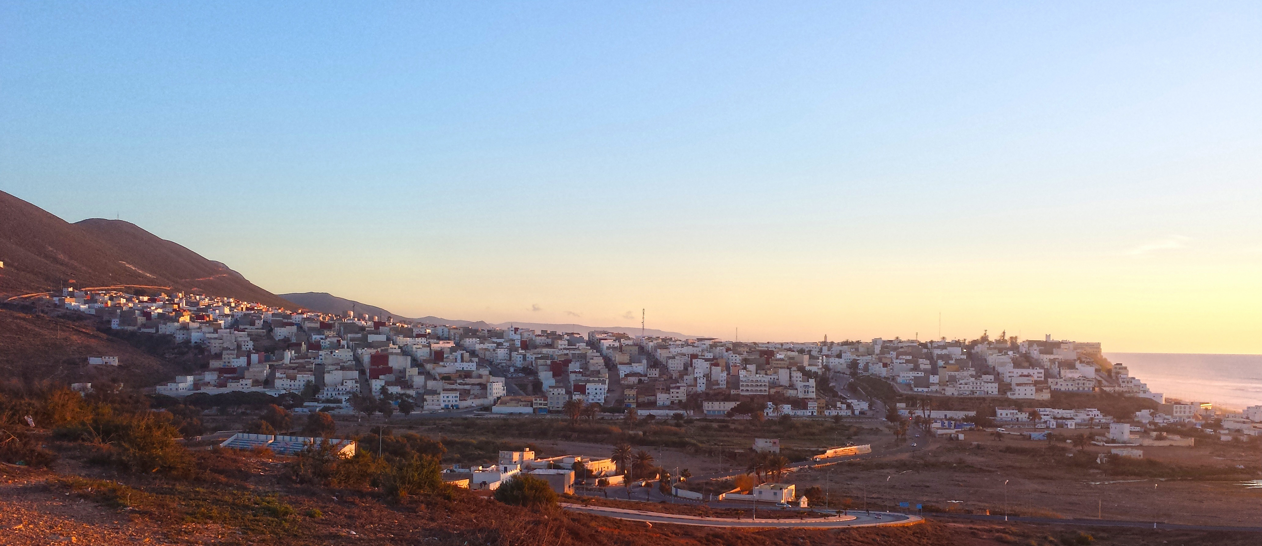 A front view of the city